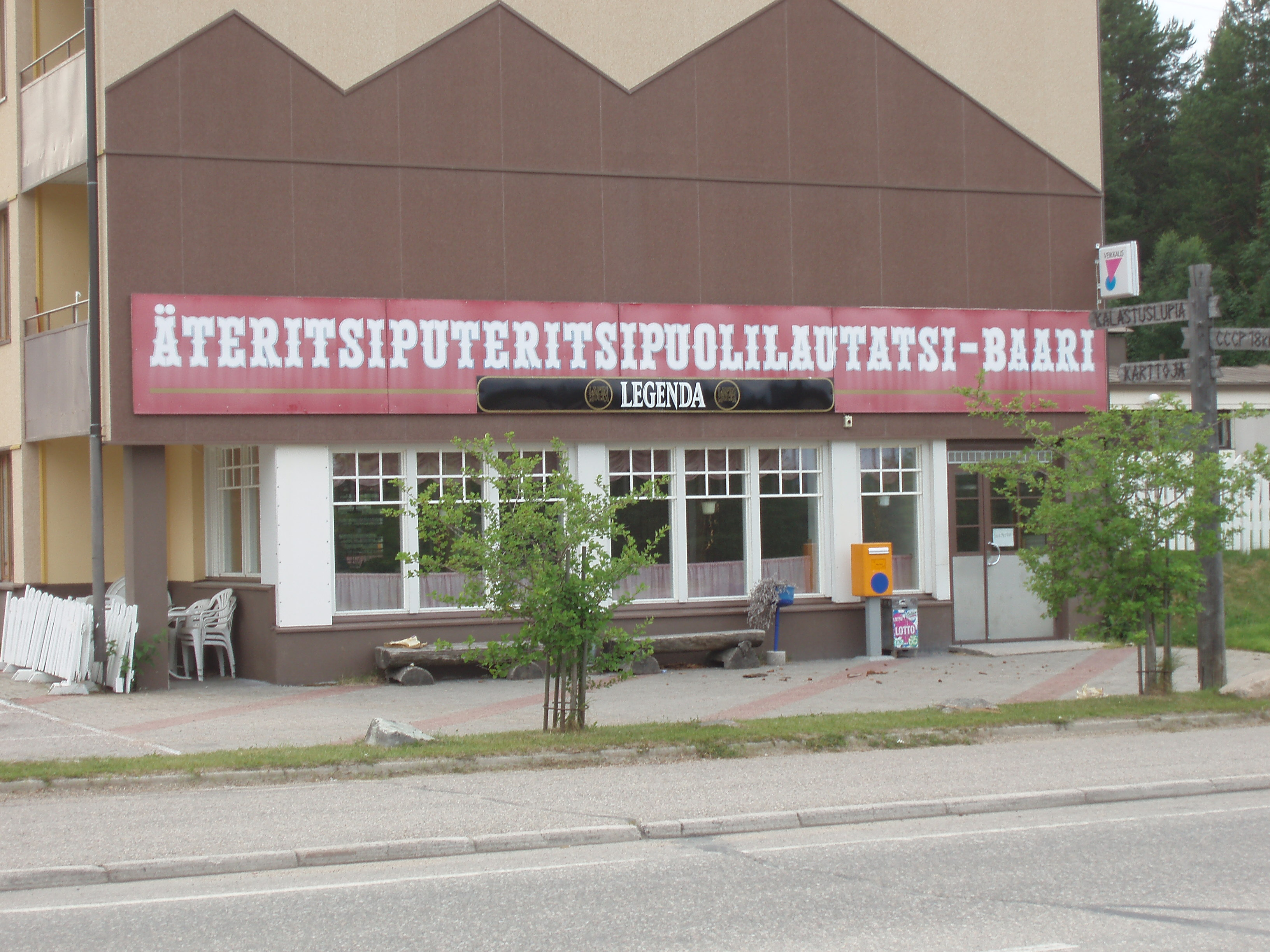 A bar whose name “Äteritsiputeritsipuolilautatsi” was the longest name in Finland. The bar has been closed totally when this photo was taken.